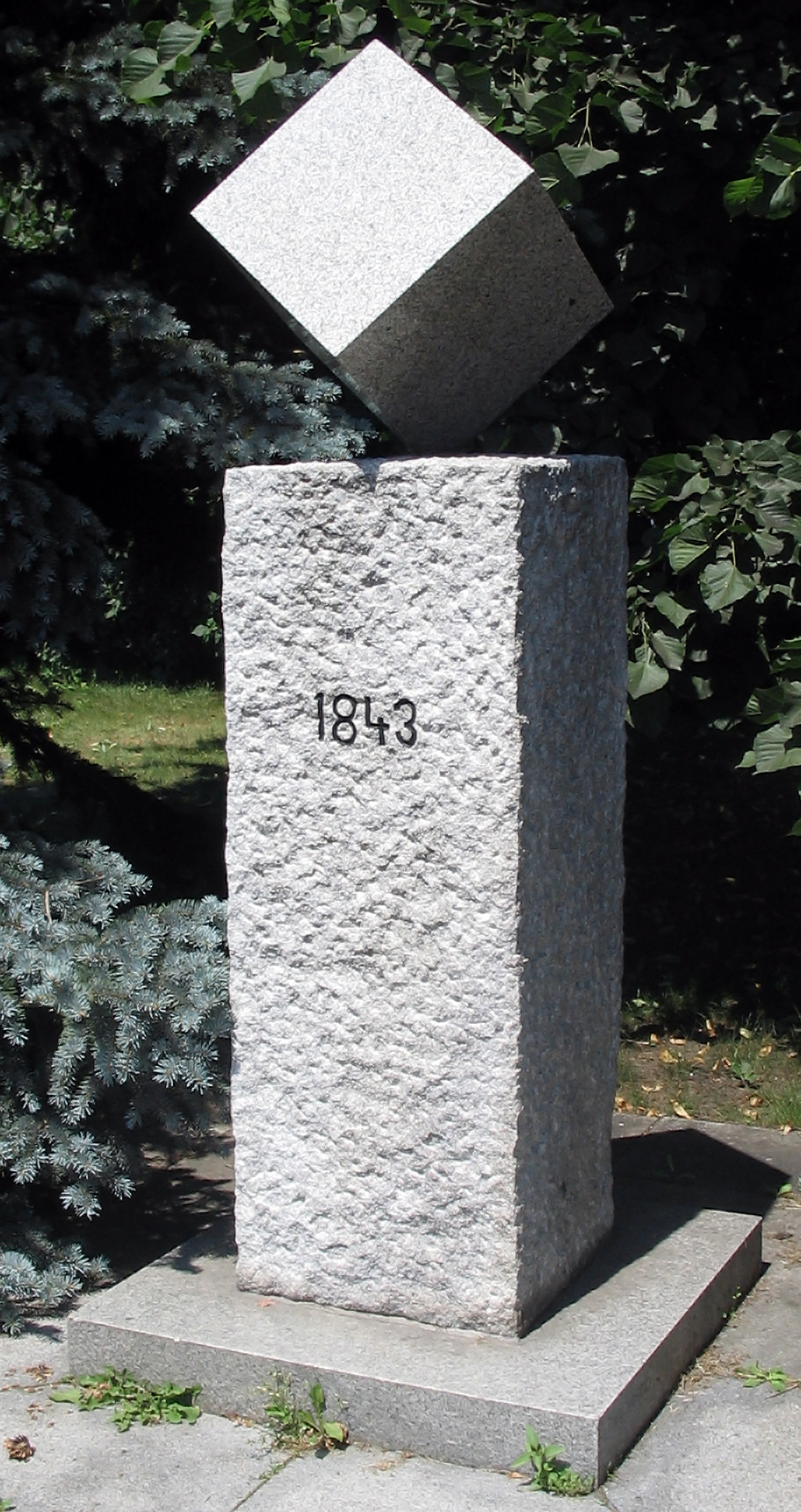 Sugar cube statue in Dačice (Czech Republic)